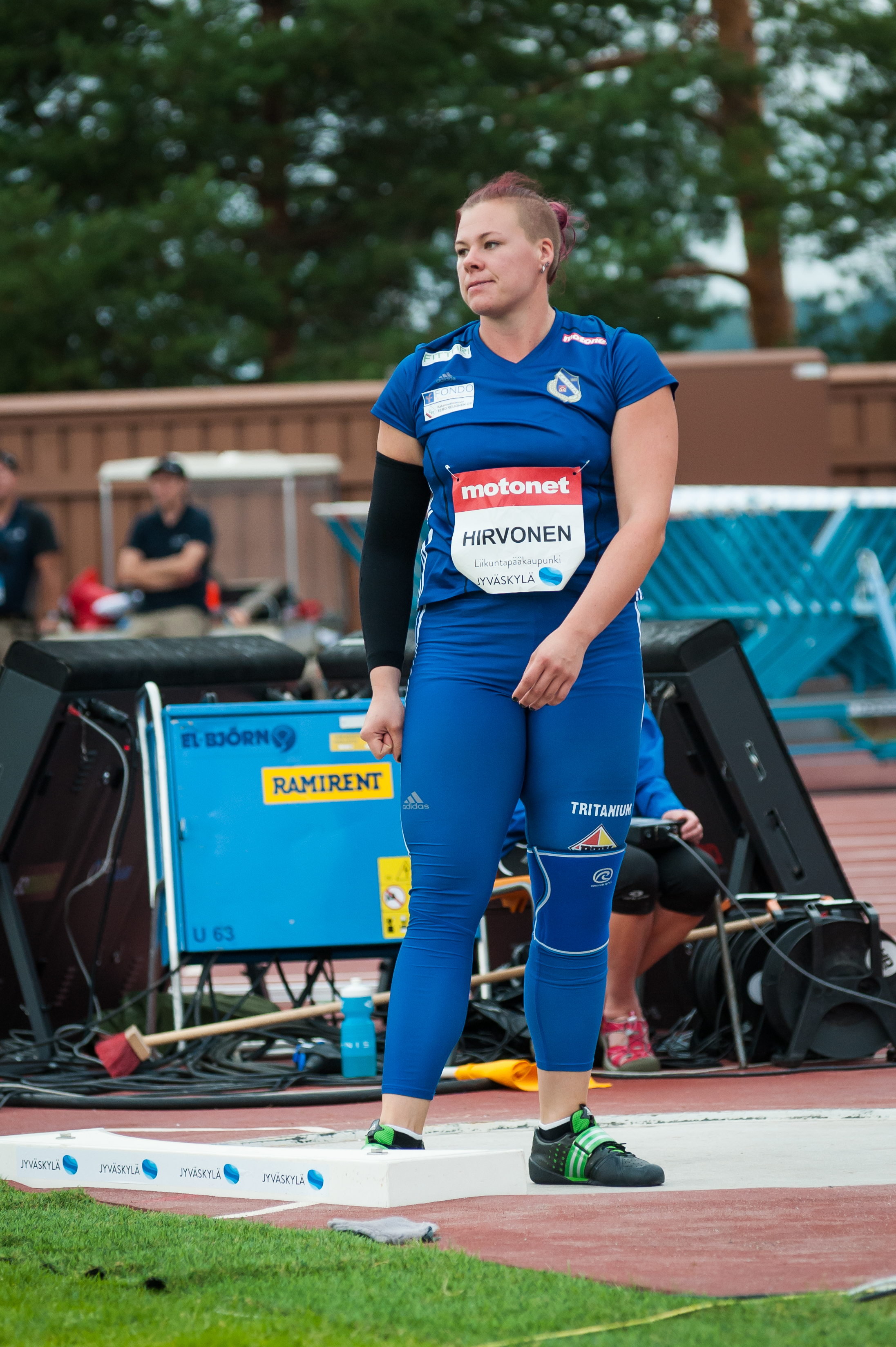 Women's shot put competition at the 2018 Kalevan Kisat, the Finnish championships in athletics, in Jyväskylä, Finland.